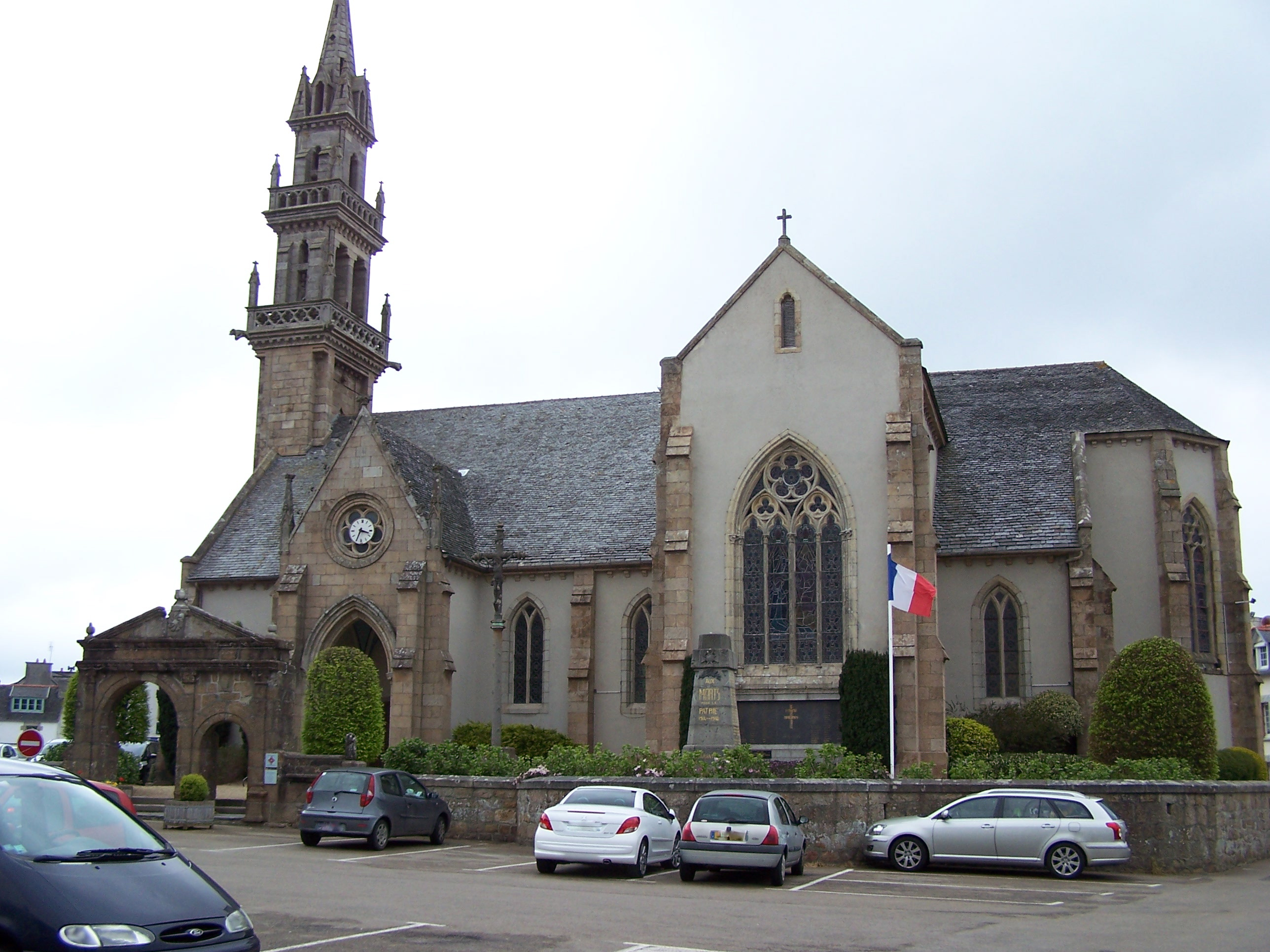 Église Saint-Carantec à Carantec